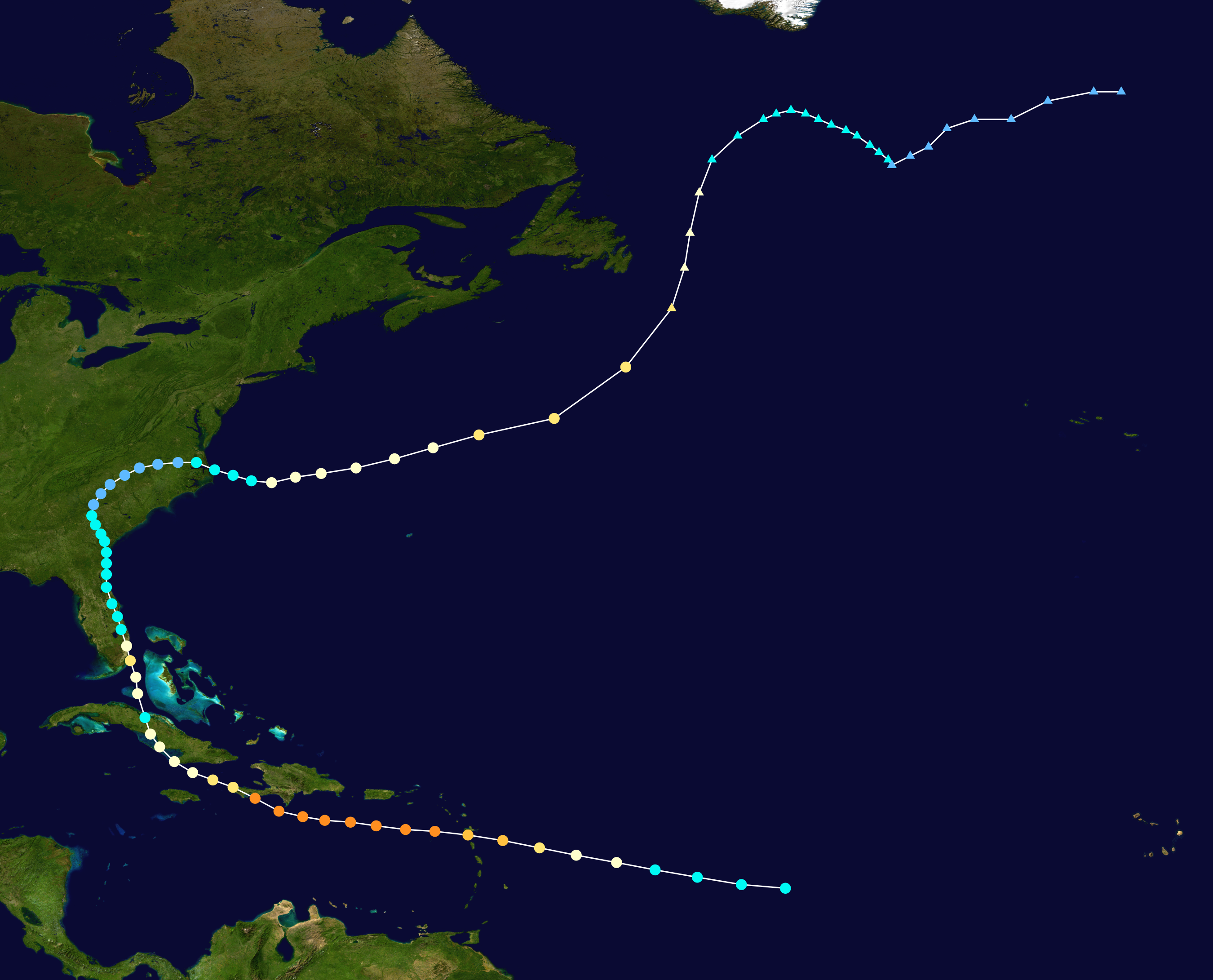 Track map of Hurricane Cleo of the 1964 Atlantic hurricane season. The points show the location of the storm at 6-hour intervals. The colour represents the storm's maximum sustained wind speeds as classified in the Saffir–Simpson scale (see below), and the shape of the data points represent the nature of the storm, according to the legend below. Saffir–Simpson scale Tropical depression≤38 mph≤62 km/h Category 3111–129 mph178–208 km/h Tropical storm39–73 mph63–118 km/h Category 4130–156 mph209–251 km/h Category 174–95 mph119–153 km/h Category 5≥157 mph≥252 km/h Category 296–110 mph154–177 km/h Unknown Storm type Tropical cyclone Subtropical cyclone Extratropical cyclone / Remnant low / Tropical disturbance / Monsoon depression